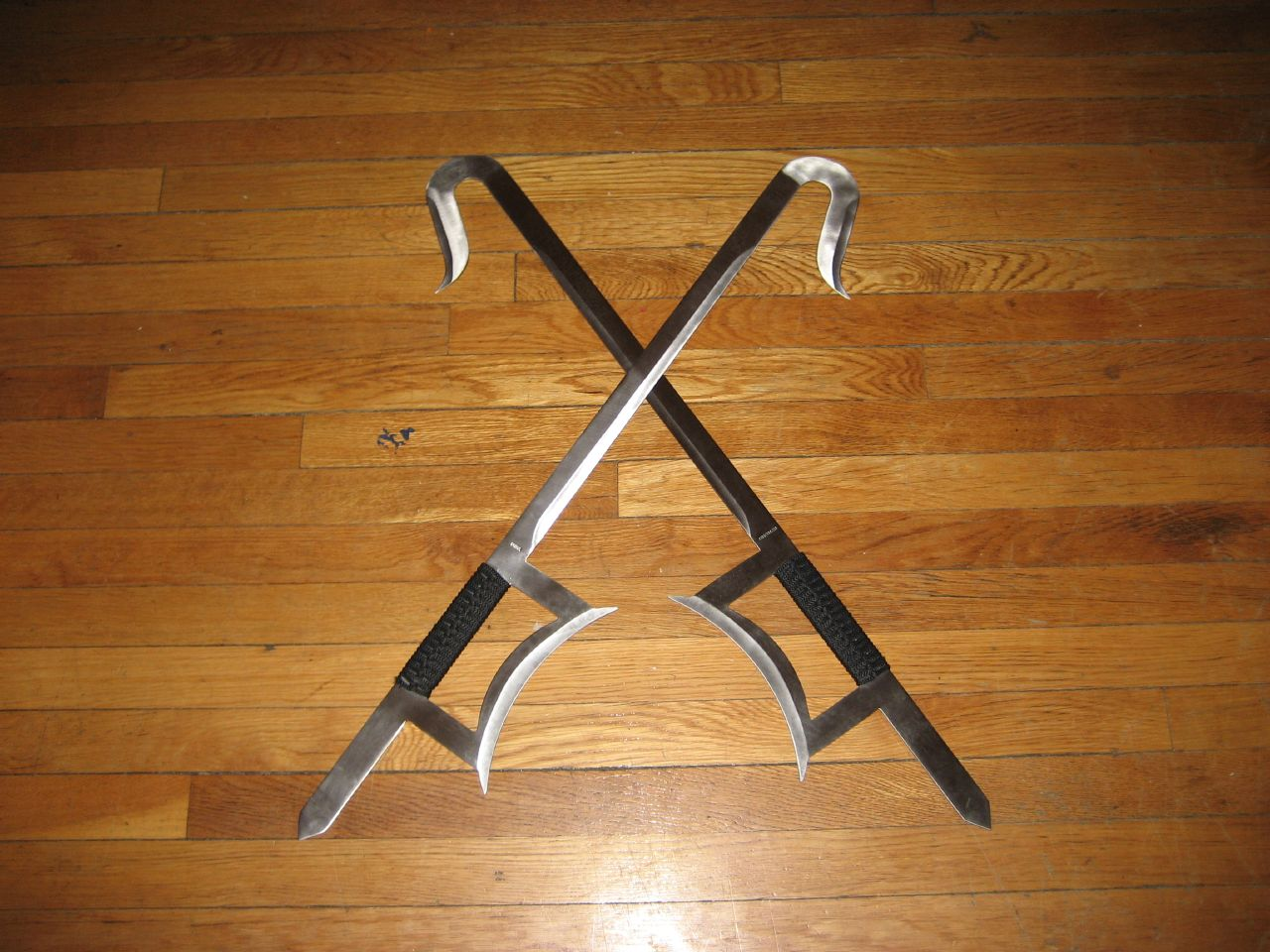 My first double weapon...prolly way too advanced...